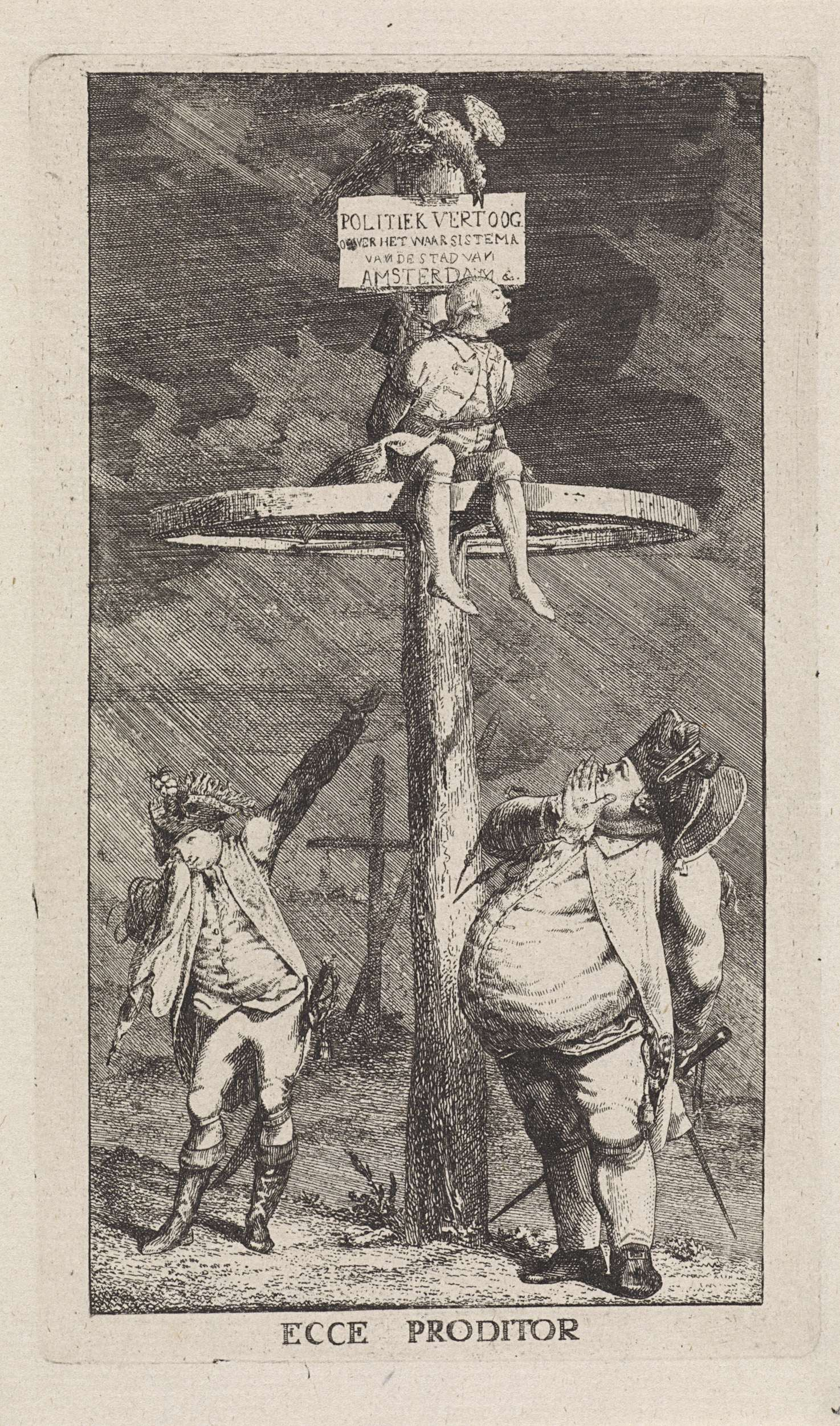 Spotprent op Rijklof Michael van Goens, 1784. Tekst: Ecce Proditor. Spotprent op de orangist Rijklof Michael van Goens, veroordeeld als landverrader op het rad, 1784. Het lijk van Van Goens op het rad op een paal, onder het rad bewenen prins Willem V en de dikke hertog van Brunswijk de terechtstelling. Bij de prent behoort een blad met een verklaring van de voorstelling.